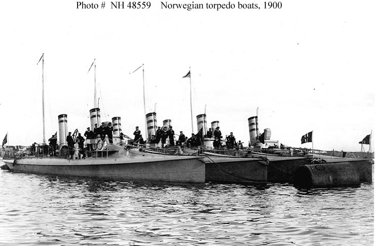 HNoMS Brand (Norwegian First Class Torpedo Boat, 1899) Moored in port with three sisters, 1900. Brand is the boat on the left. Photographed by A. Renard, Kiel, Germany. U.S. Naval Historical Center Photograph.